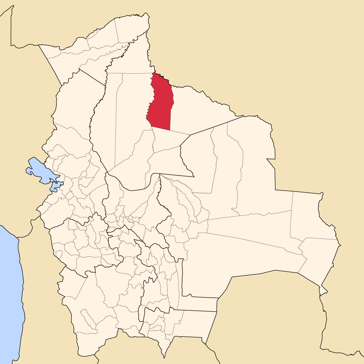 Map of Bolivia showing Mamoré province, Beni